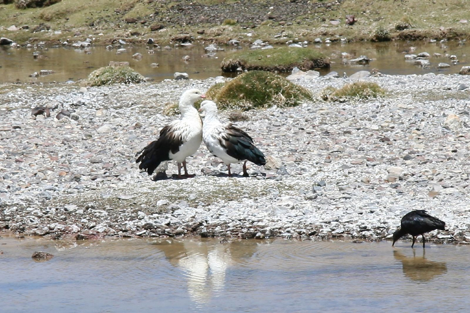 These above 4000m and I was having real problems with altitude. Chloephaga melanoptera and in the corner is a Puna Ibis Plegadis ridgwayi. (Just noticed that I never got around to posting this to FBW)